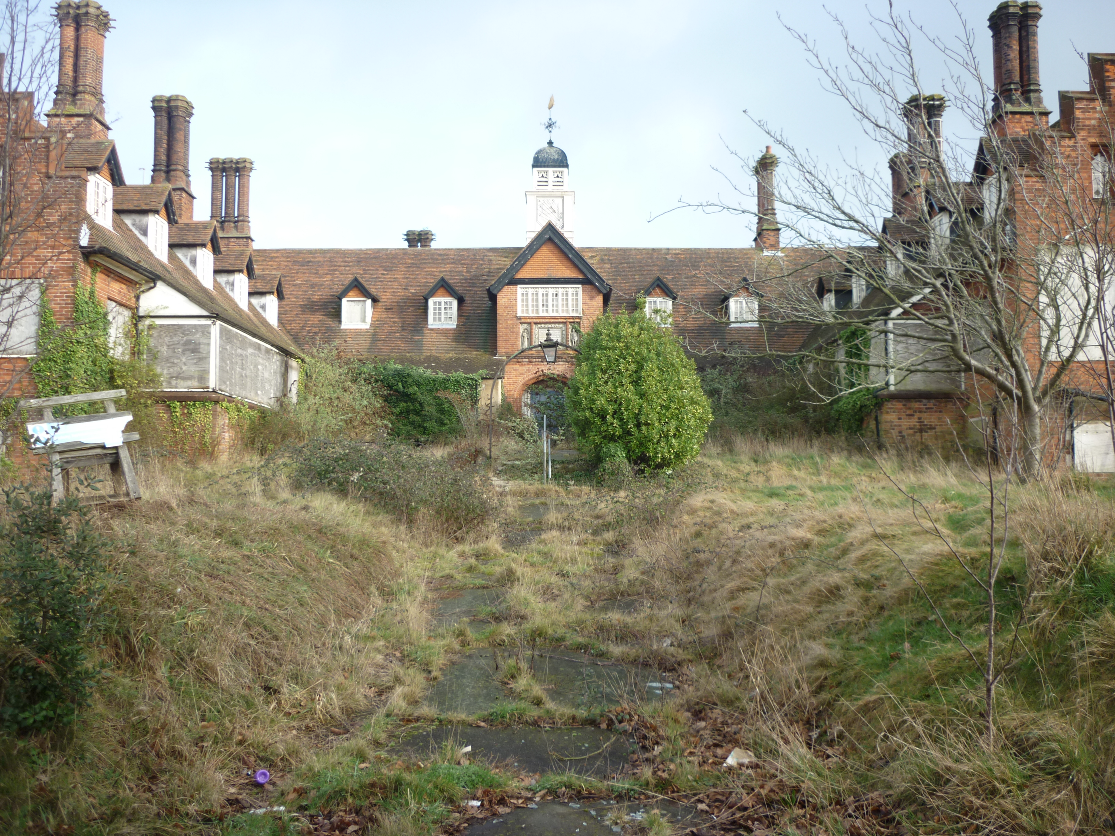 Frank James Hospital located in East Cowes on Isle of Wight